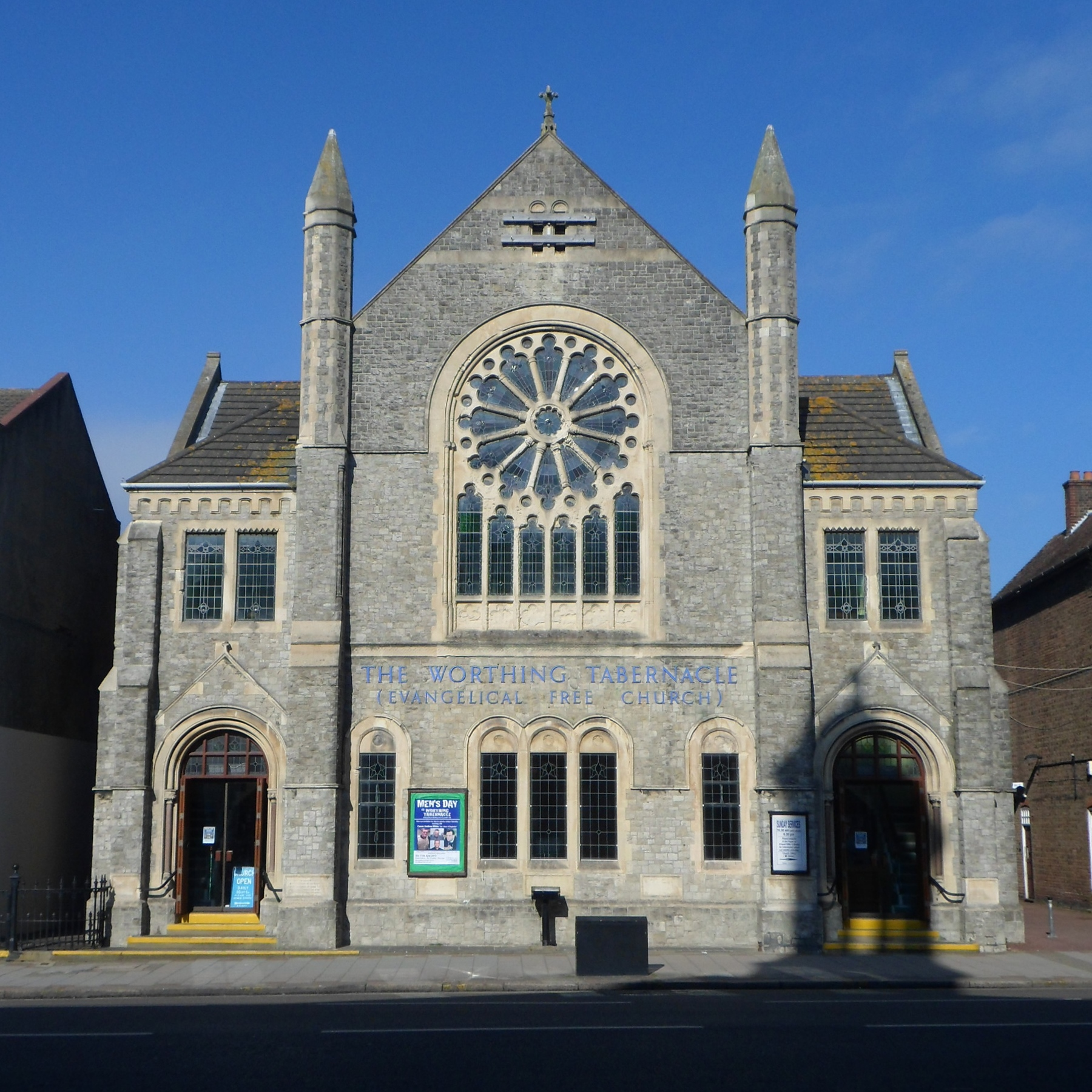 Worthing Tabernacle, Chapel Road, Worthing, West Sussex, England. An Evangelical church founded in 1895; it moved to this building in 1908.